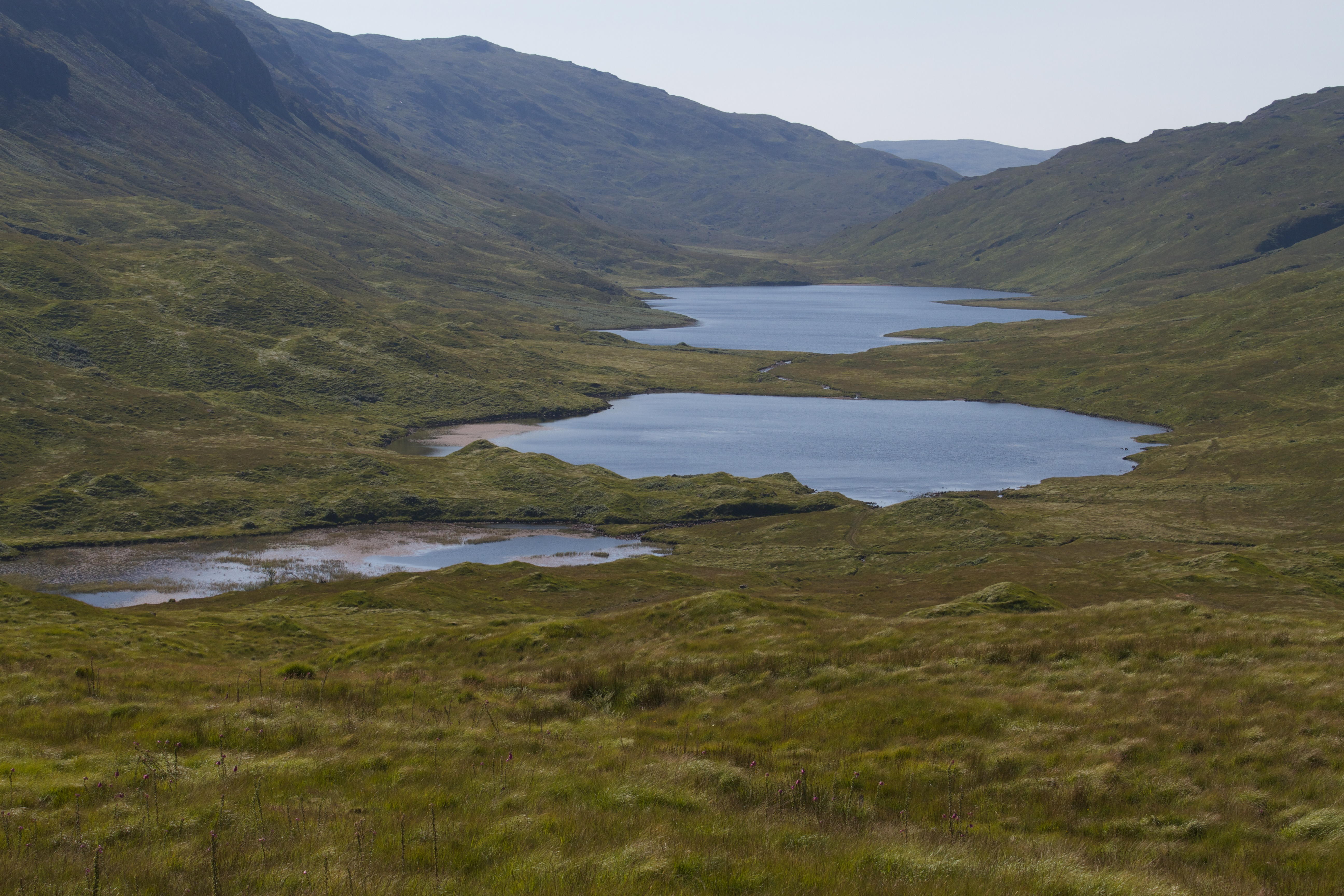 Three glacial paternoster lakes near Ishriff on the island of Mull, Scotland. They are connected by two streams. The lakes are named Loch an Eilein, Loch an Ellen and Loch Airde Glais